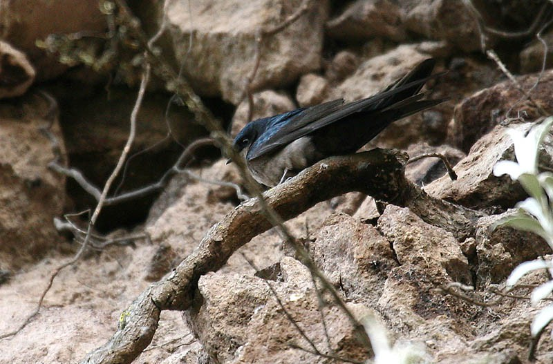 Brown-bellied Swallow (Notiochelidon murina). Near Yanacocha, Ecuador. 3/8/2007